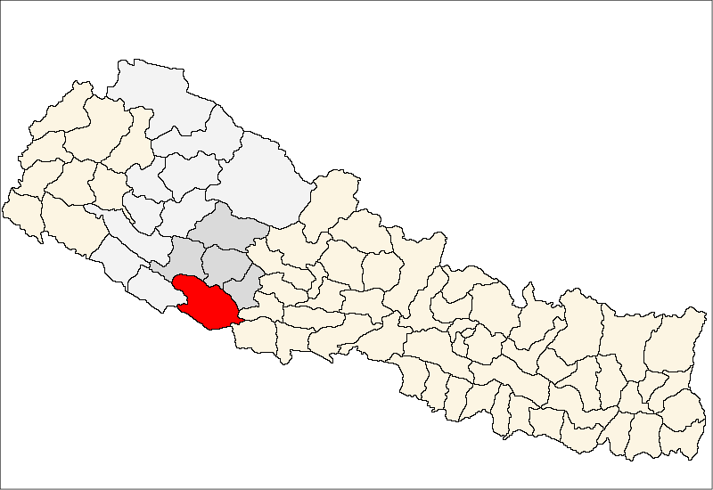 FrenchCarte de localisation dudistrict de Dang(wp-FR),au Népal (wp-FR).EnglishLocation map ofDang Deukhuri District(wp-EN),in Nepal (wp-EN).